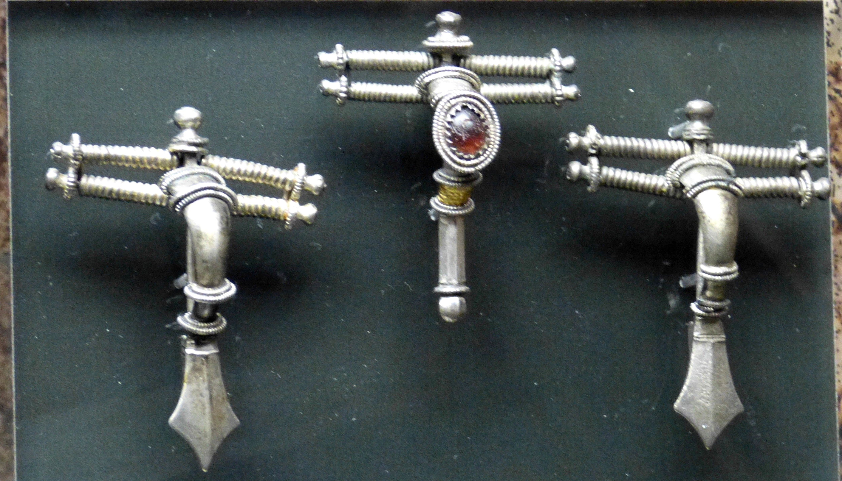 Weimar ( Thuringia ). Museum for Prehistory in Thuringia: Ancient Germanic fibulae ( 4th century AD ) from a princess' grave in Haßleben.